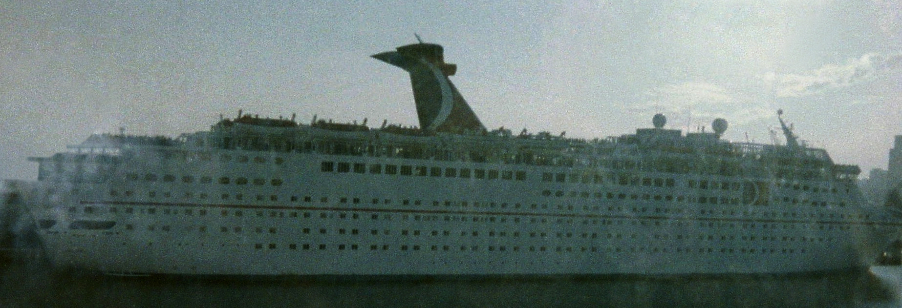 The Carnival cruise ship Jubilee docked in Miami, Florida.